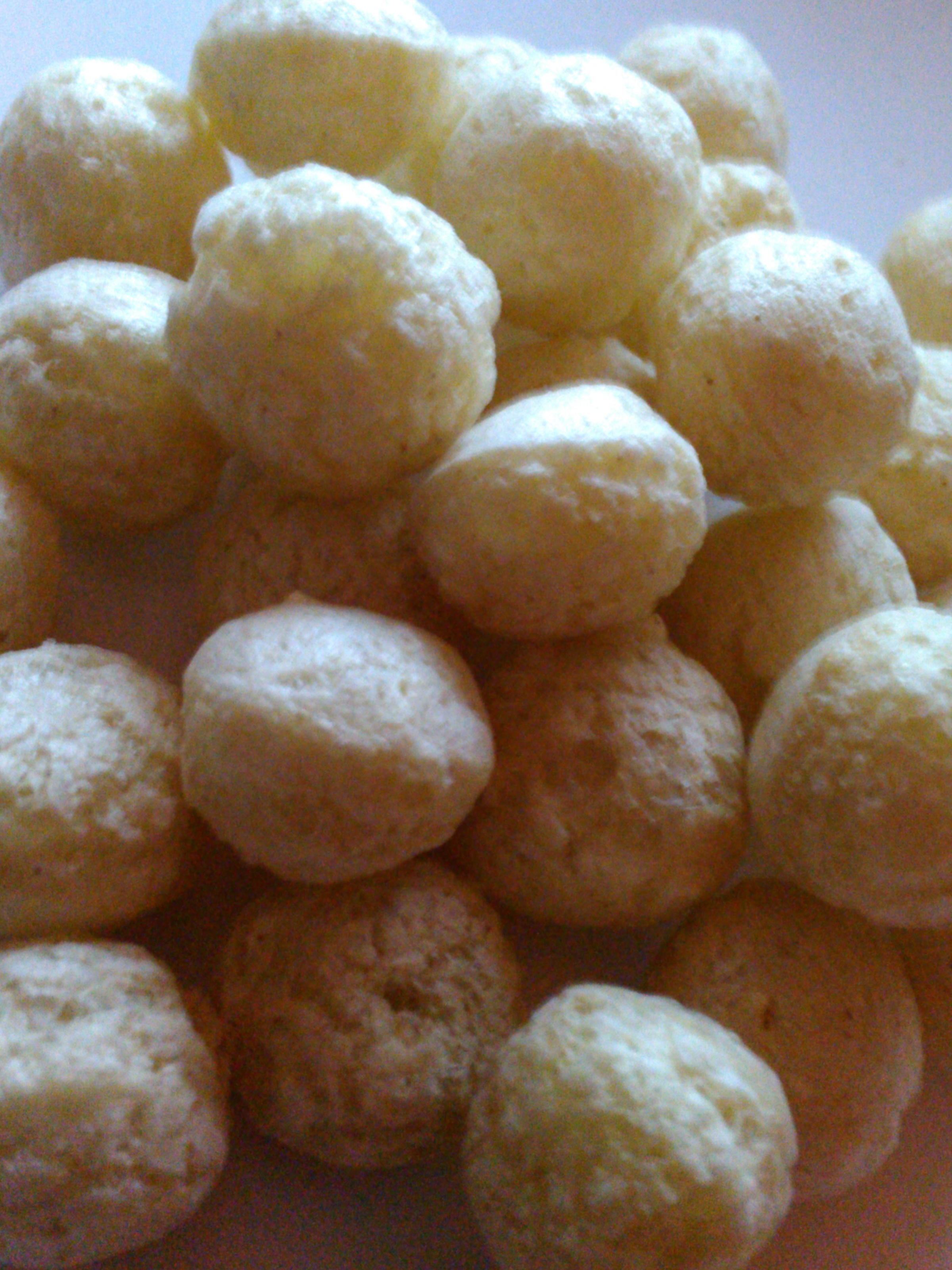 millet dumplings, manufactured using extrusion